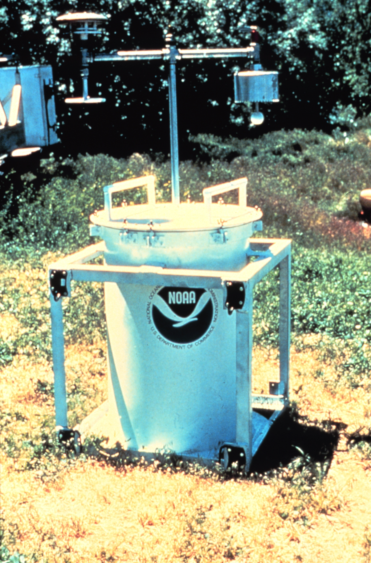 During the early 1980s, NSSL and University of Oklahoma researchers place TOTO (TOtable Tornado Observatory) in the path of an on-coming tornado. It would measure temperature, pressure, relative humidity etc. It would record the data on tape inside the 55 gallon drum. TOTO was hit by a small tornado only once in April, 1985.